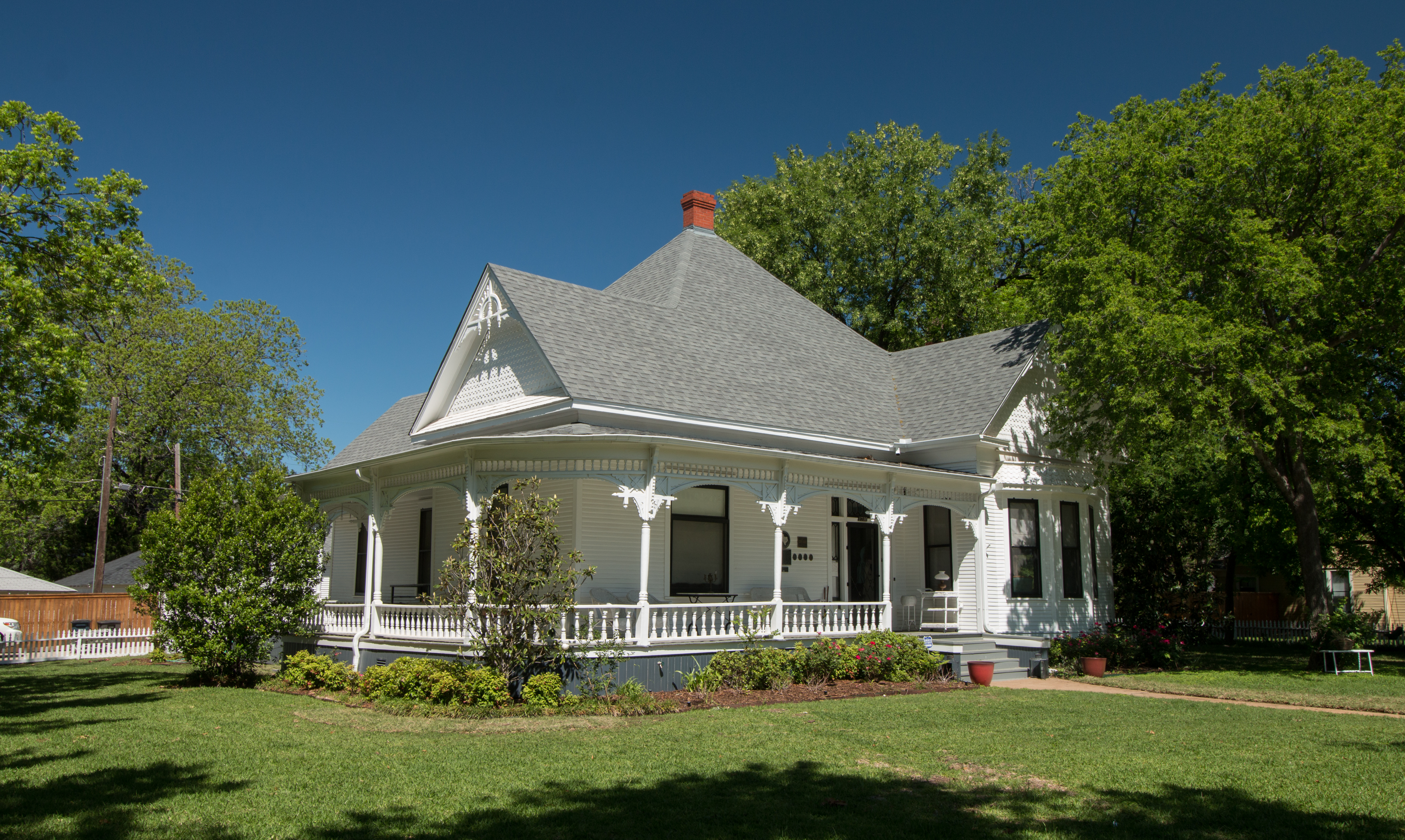 M.A. Benton House in Fort Worth, Texas